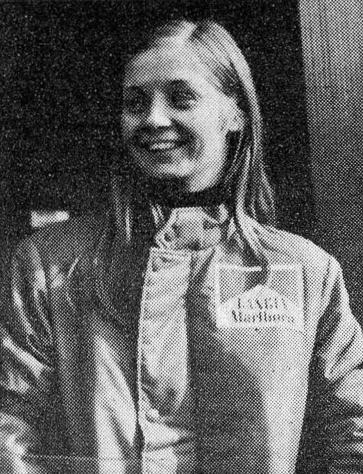 Turin (Italy), "Vincenzo Lancia" Museum, February 21, 1973. French rally co-driver Michèle Petit — known with the nickname of “Biche” — presented as a new recruitment of Lancia–Marlboro racing team for the 1973 season.